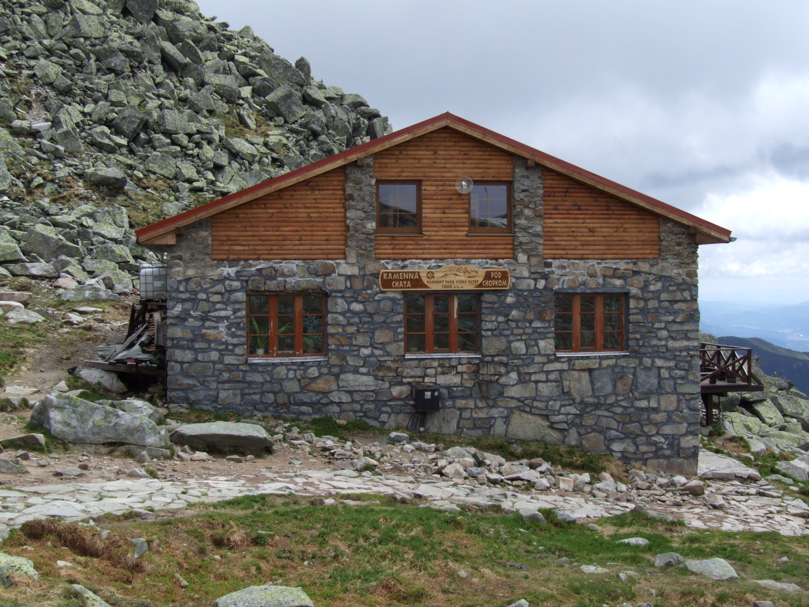 Kamenná chata - mountain hostel on Chopok, Low Tatras, Slovakia